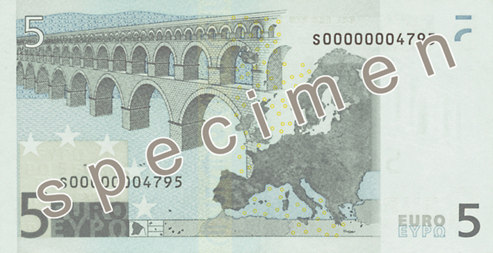 Reverse side of the €5 banknote